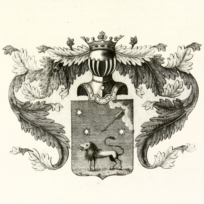 Tyrtov gerb